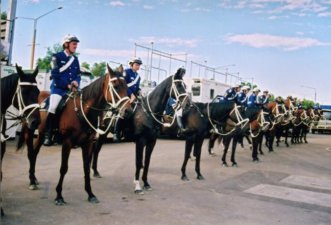 Sydney Royal Easter Show